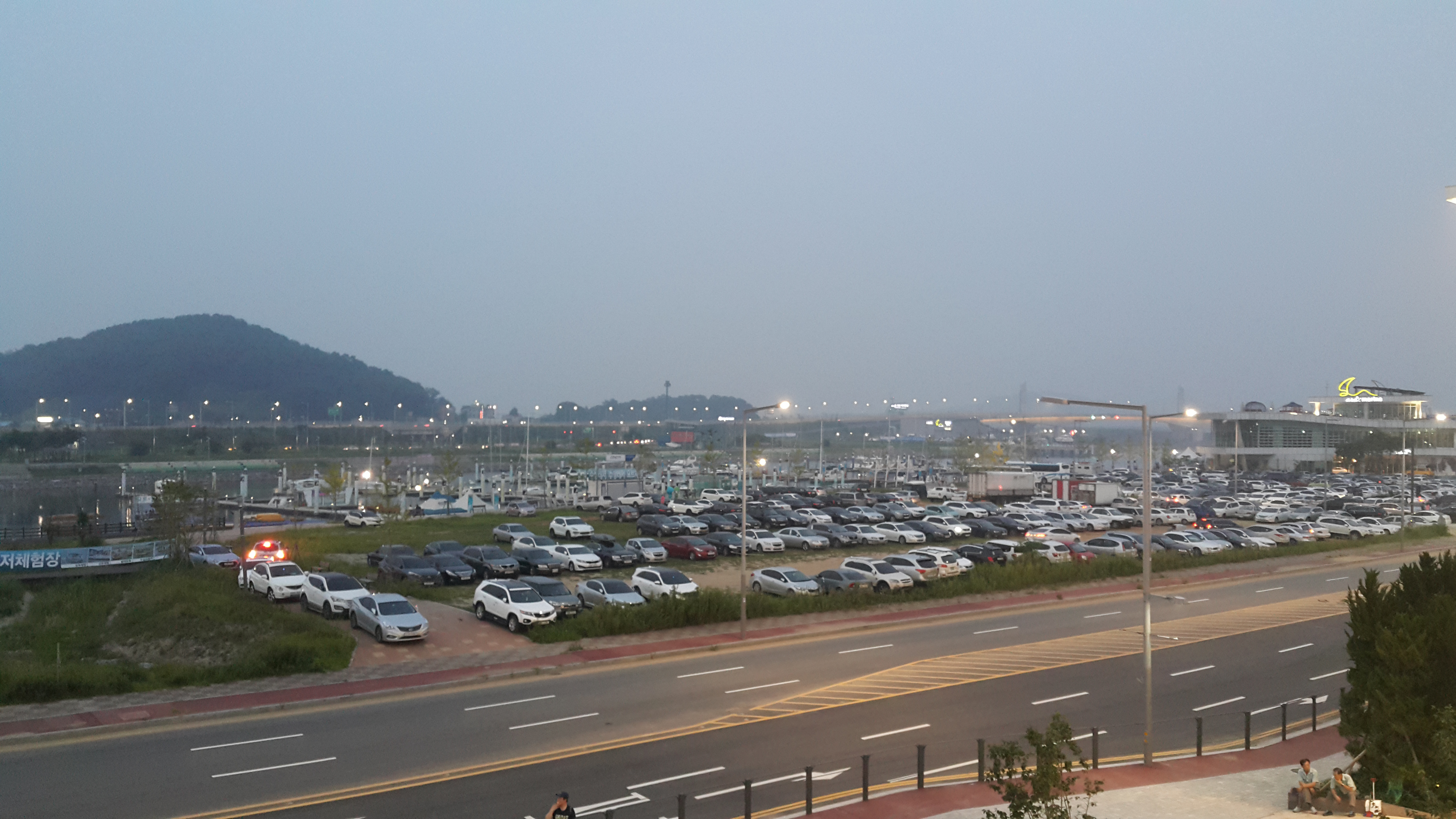 It is view of Marina port.